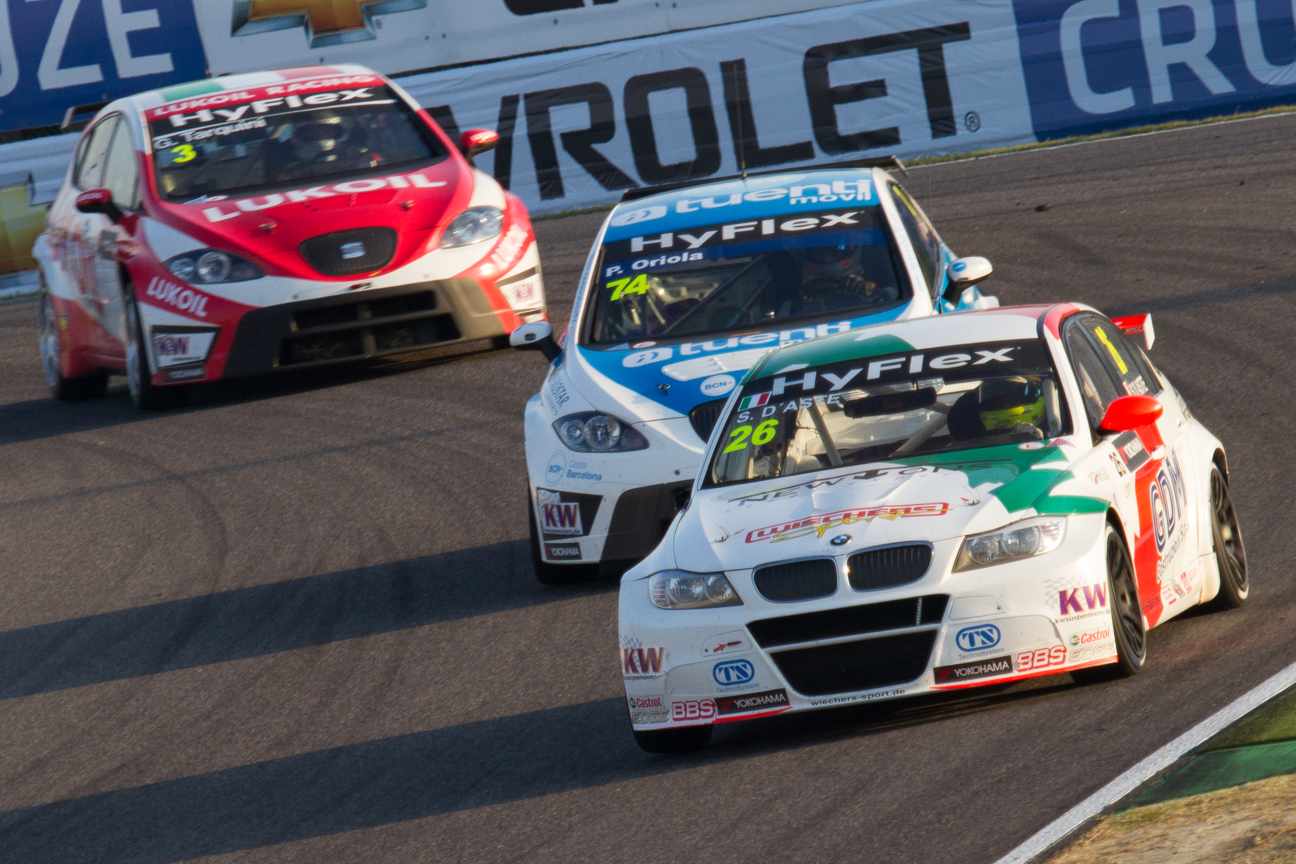 World Touring Car Championship 2012 Race of Japan: Stefano D'Aste leads the Race 2